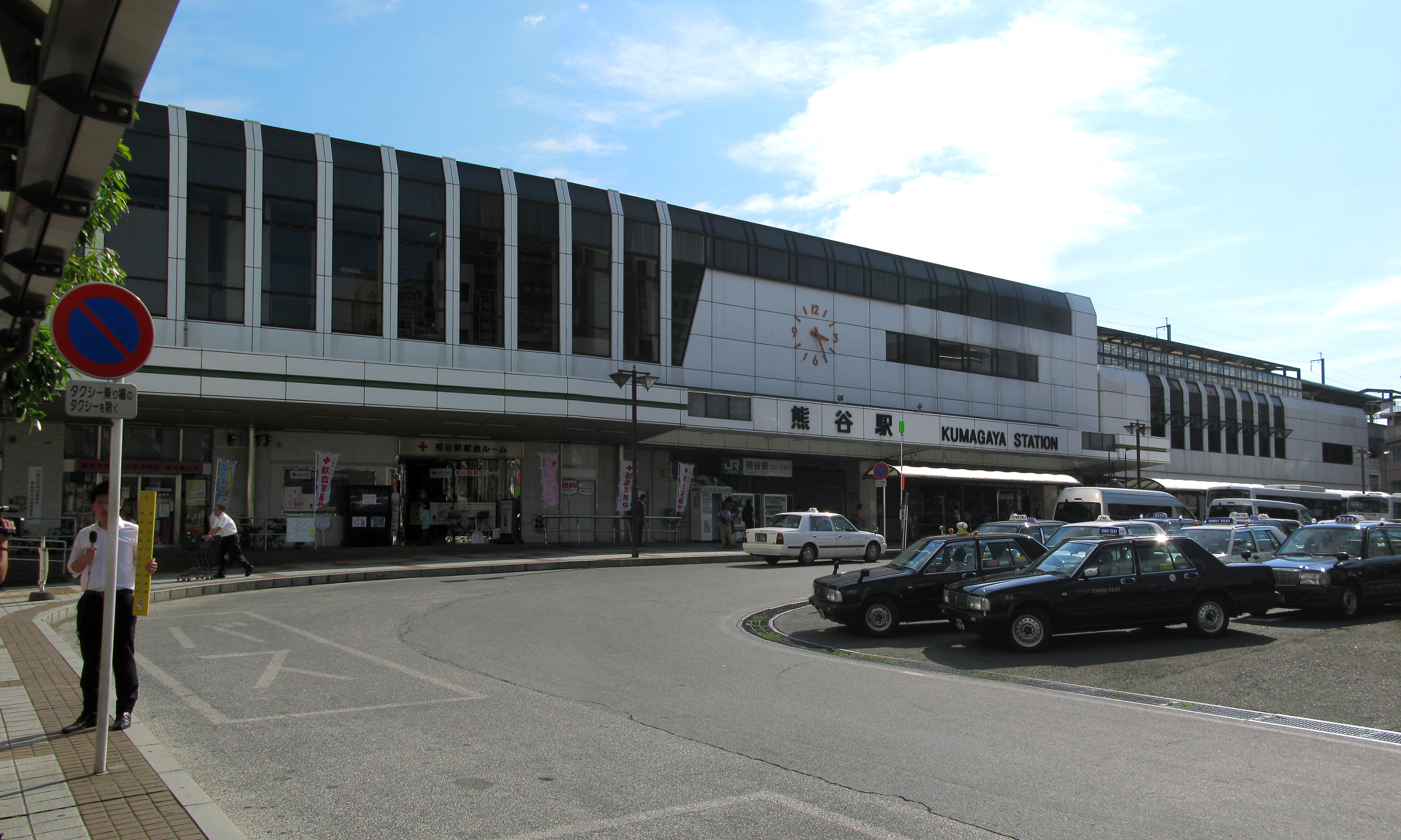 Kumagaya Station north entrance